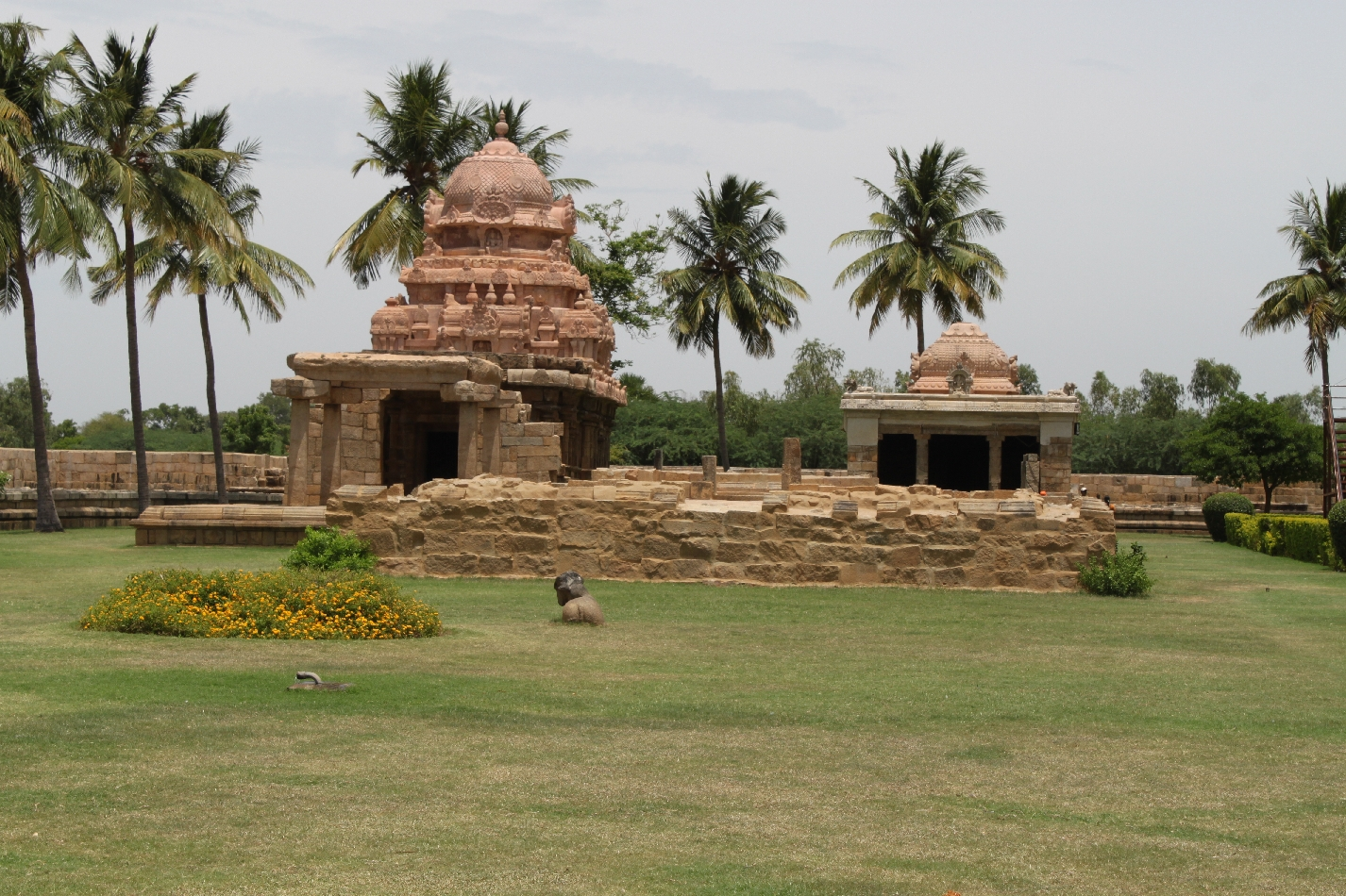 Brihadisvara Temple